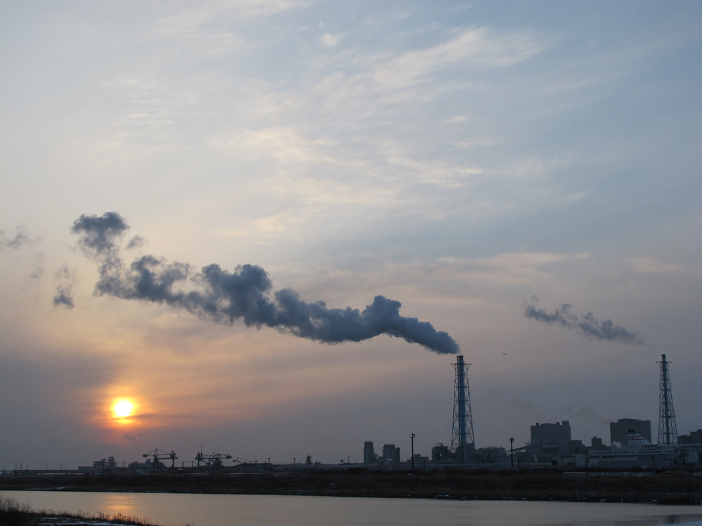 Tomatō-Atsuma Power Station in Atsuma, Hokkaido, Japan.